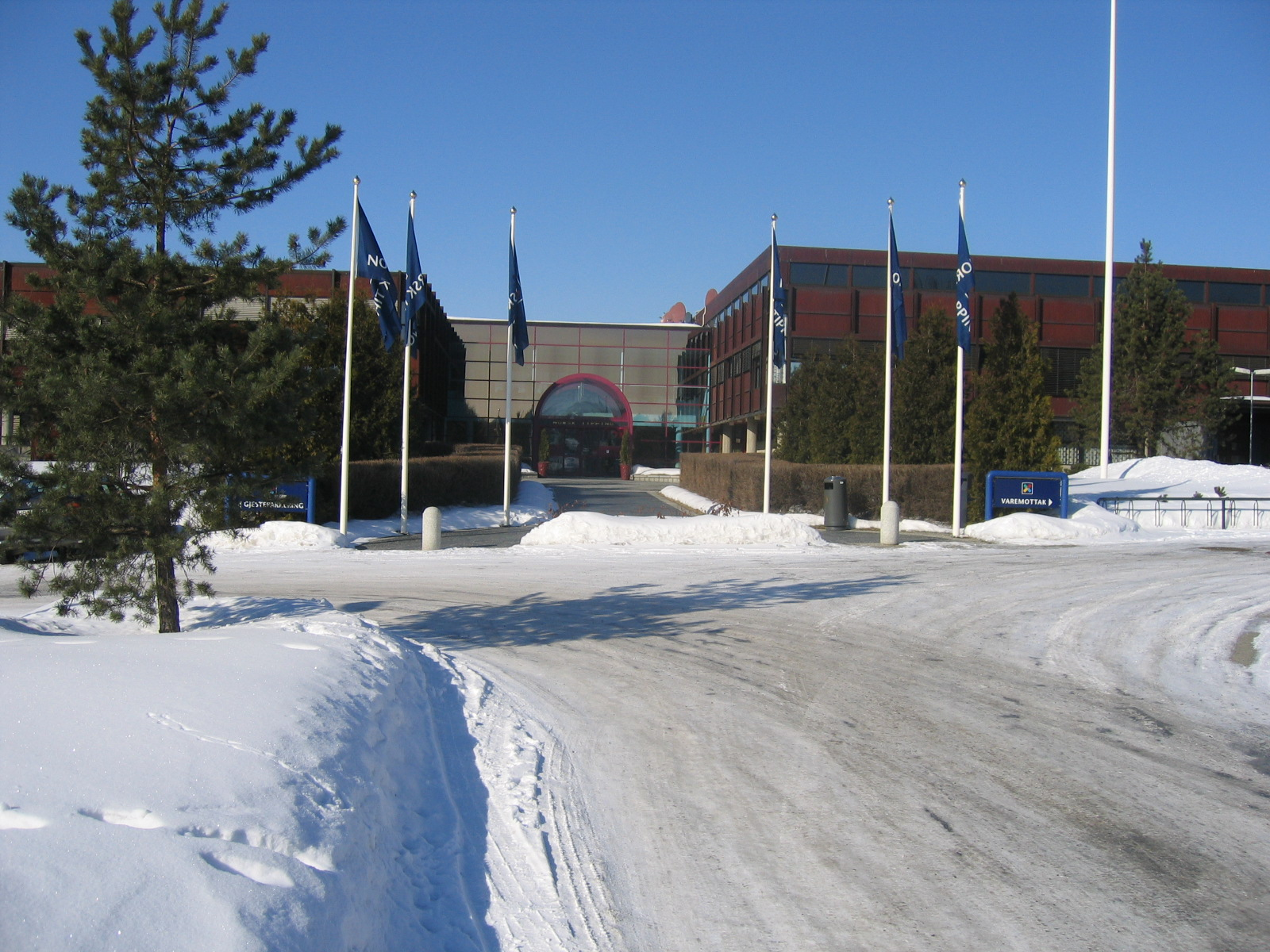 Norsk Tipping, Hamar, Norway. Built 1975. Architect: Chr. Lindman. Norsk Tipping AS is the National Lottery in Norway.